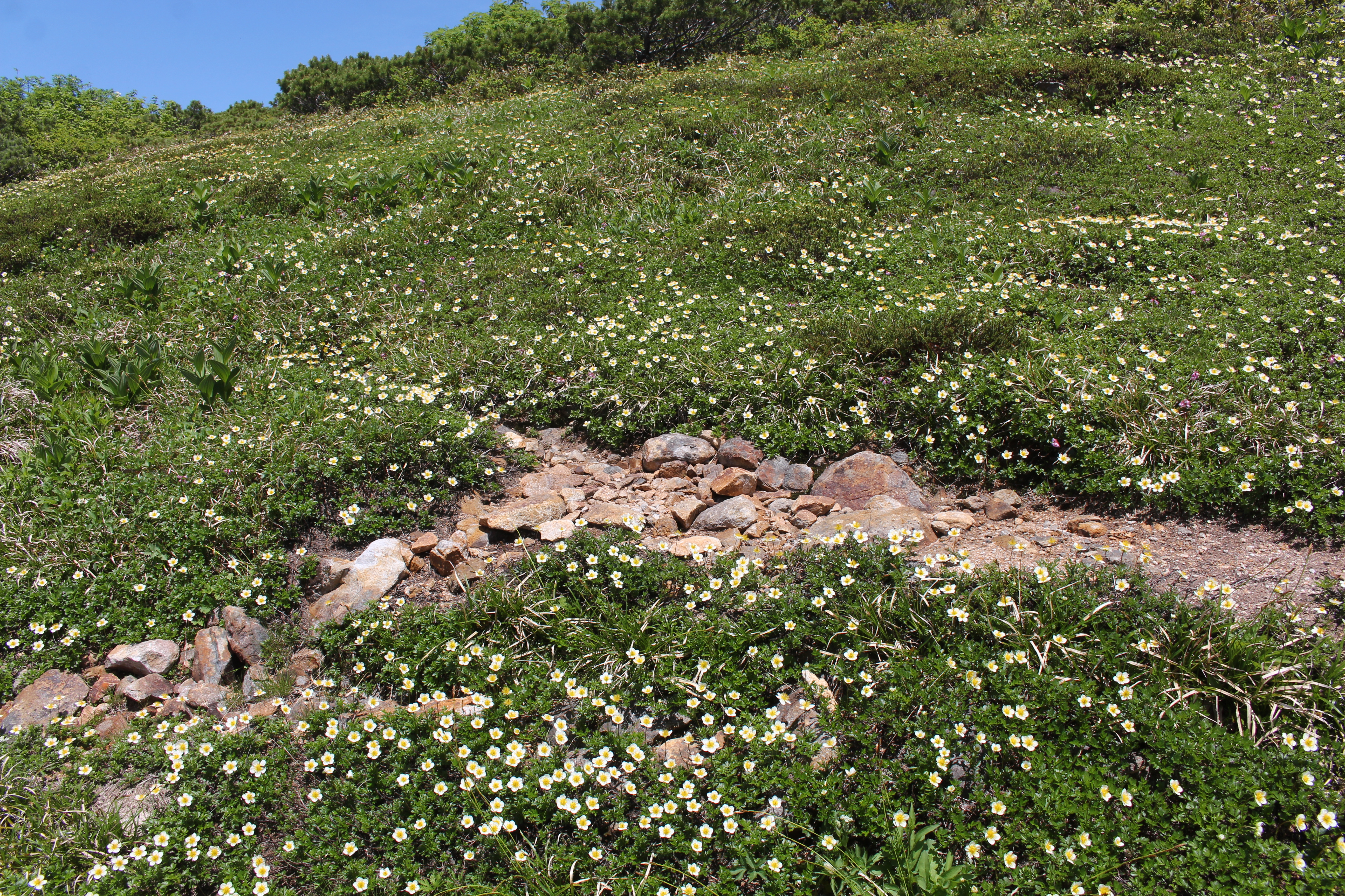 Sieversia pentapetala in Mount Jii, Ushirotateyama Mountains (Hida Mountains), Omachi, Nagano prefecture, Japan.